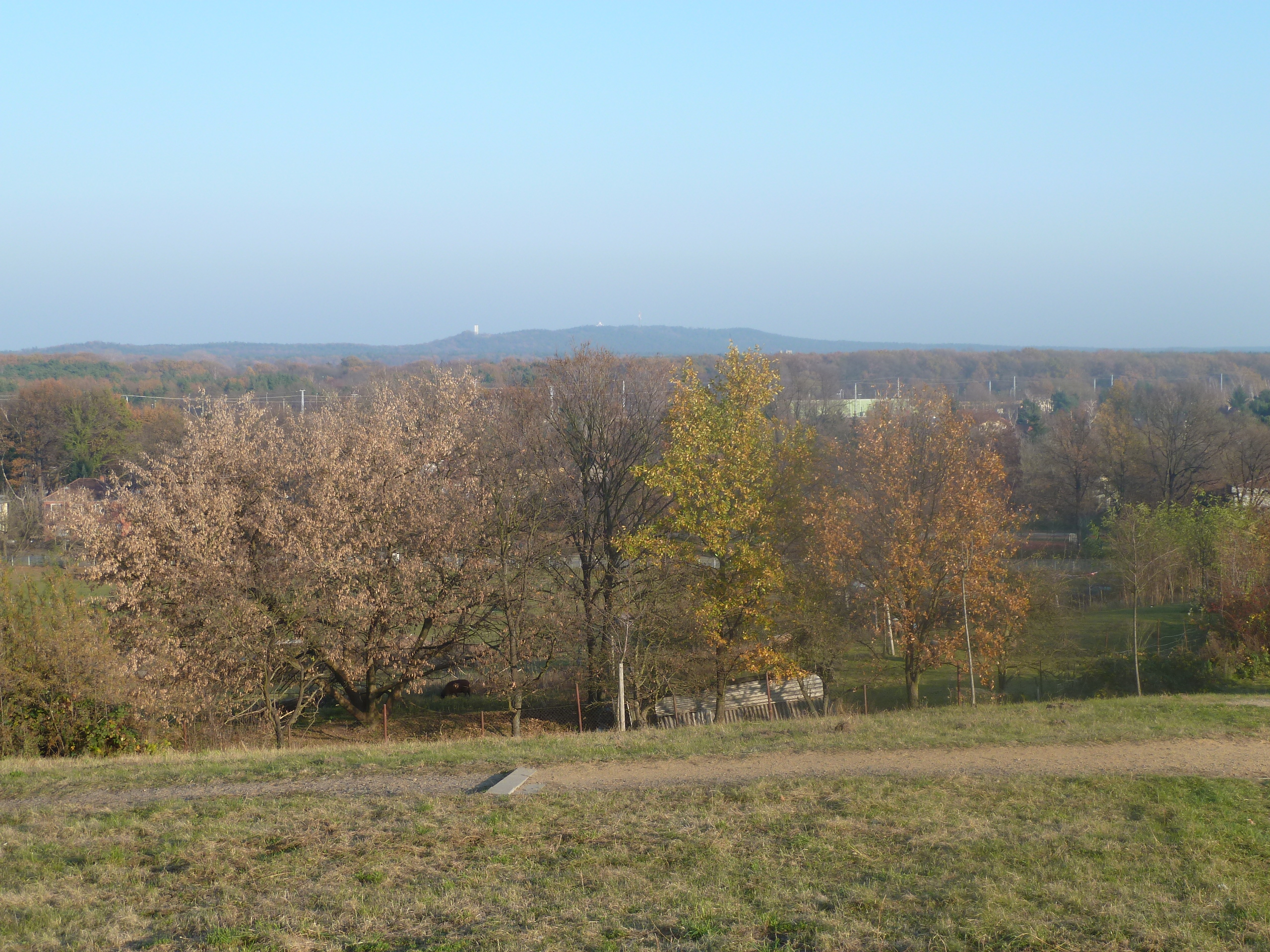 View from hill Falkenberg in Berlin-Bohnsdorf